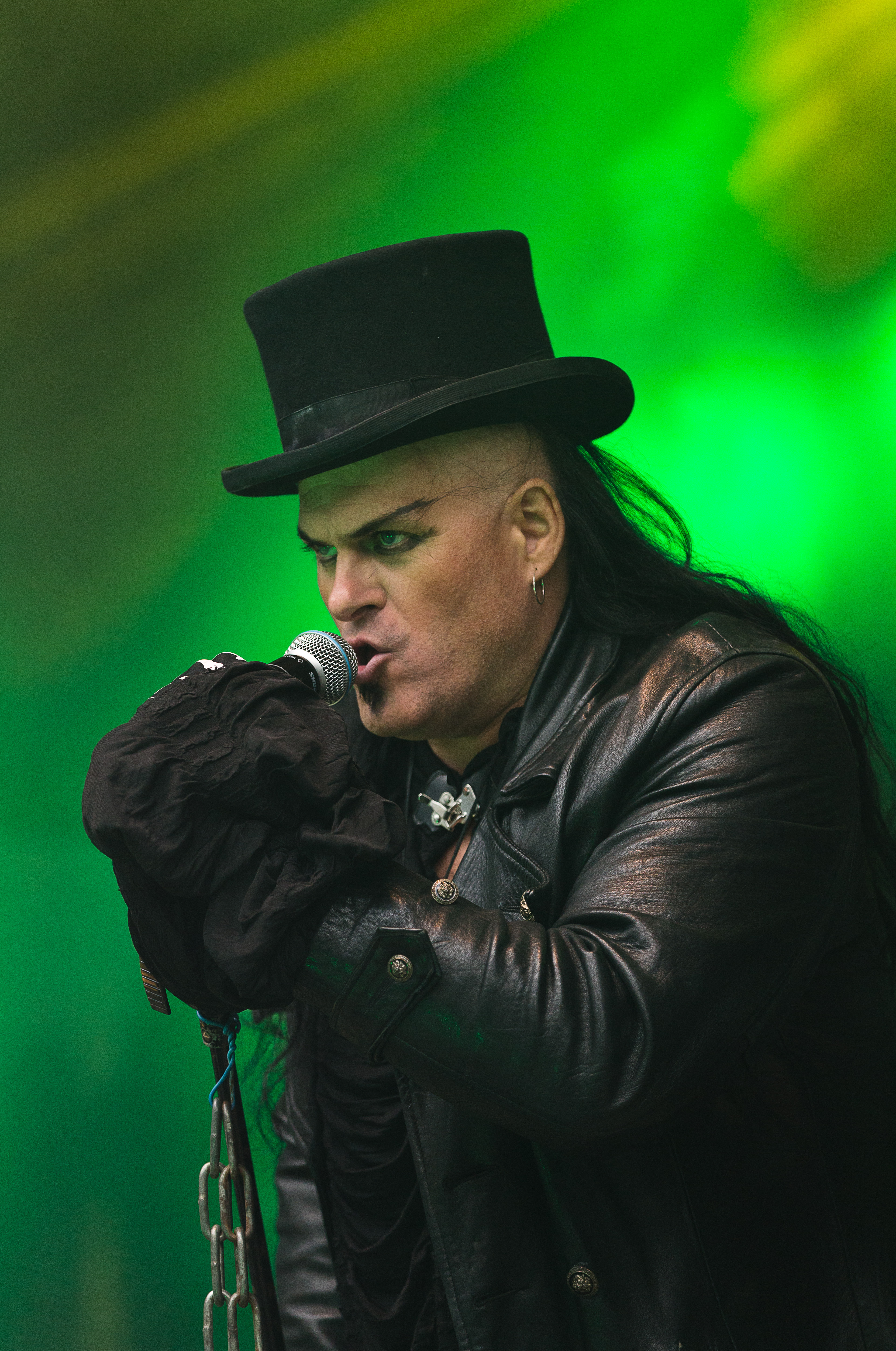 The German gothic rock band Umbra et Imago at the Nocturnal Culture Night 10 2015 in Deutzen/Germany.